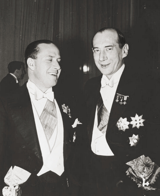 Galeazzo Ciano and Józef Beck. March 1939. Photo published by Światowid.